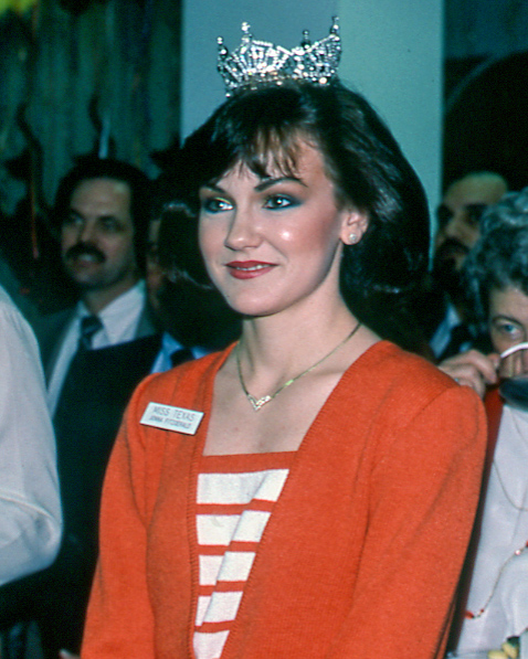 Miss Texas at a Southwest Airlines event at Houston Hobby Airport for the dedication of "The Texas Sesquicentennial" aircraft.